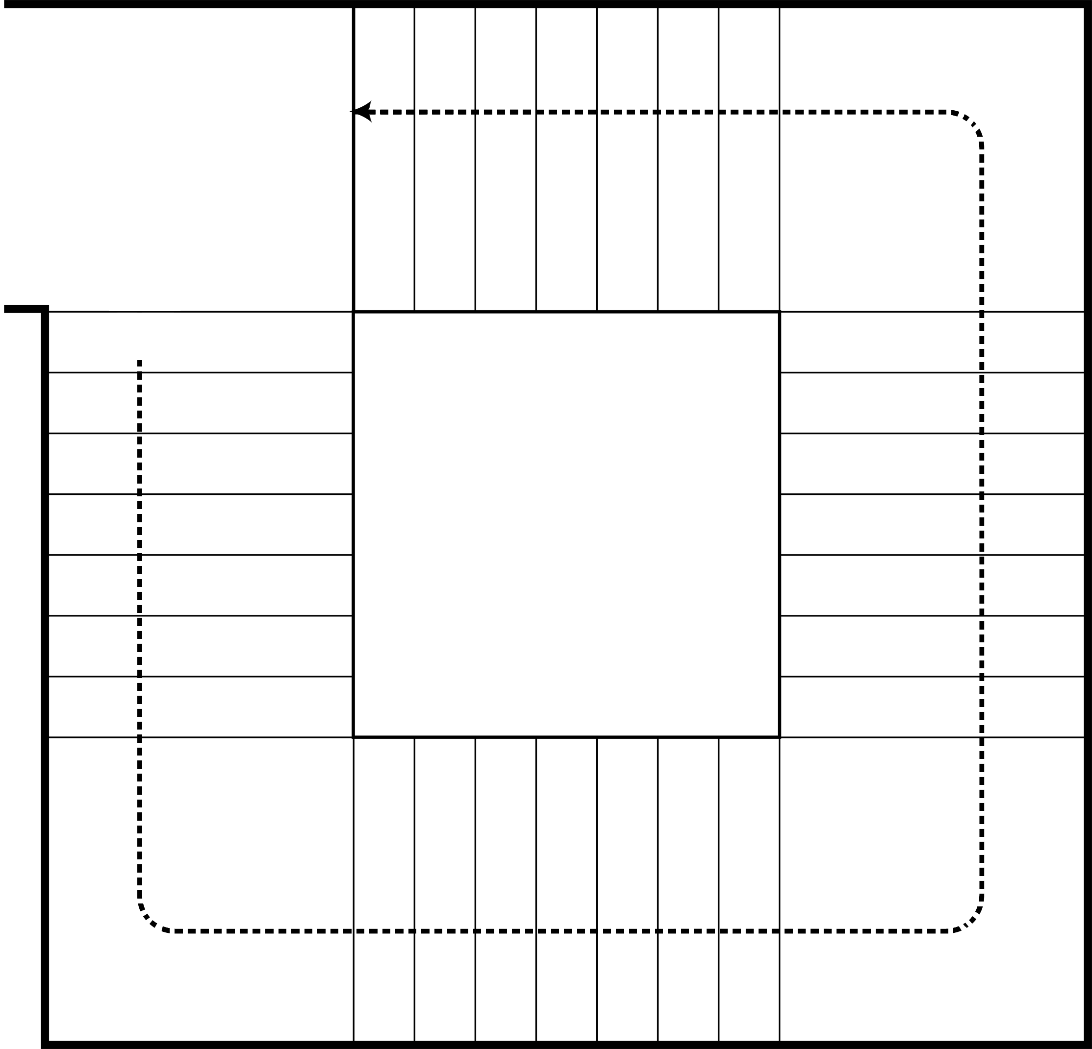 Four-flight quarter-turn stairs with indicative arrow. Original Schody lamane czterobiegowe.png made by Pko